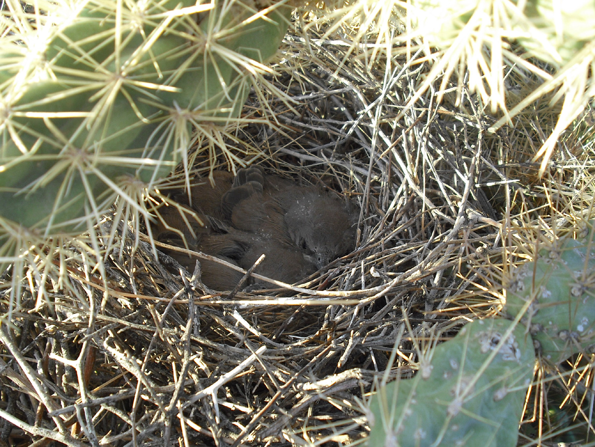 Curve-billed thrasher chicks in a nest constructed between branches of cholla cactus. In Lost Dutchman State Park, Arizona.